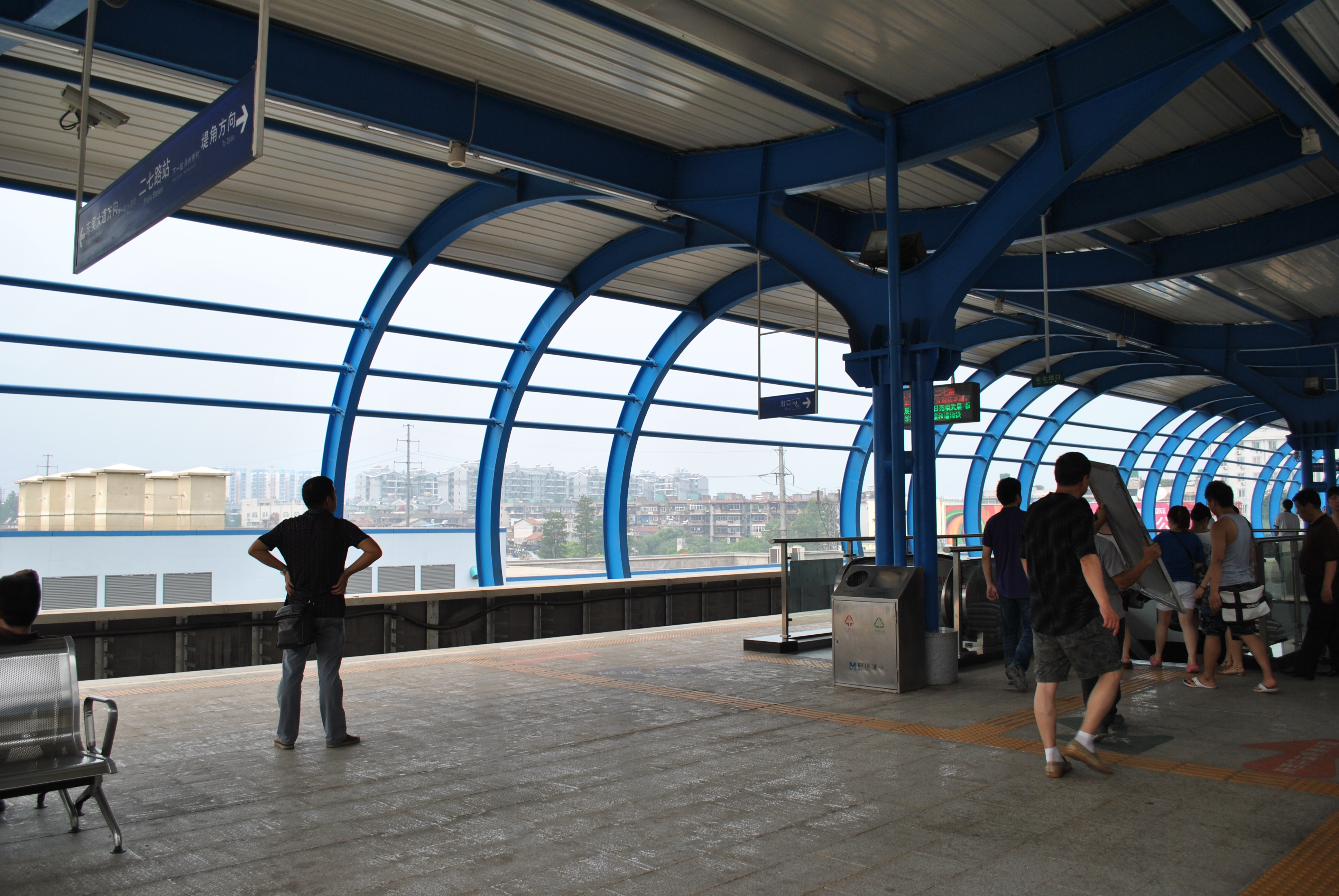 A photo of Wuhan Metro Line 1 Erqilu Station